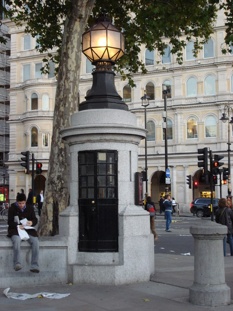 Trafalgar Square Auxiliary Police Station Sitting often unnoticed by the crowds in the south east corner of Trafalgar Square is this former police box. unusually it is made out of stone to blend in with the area.